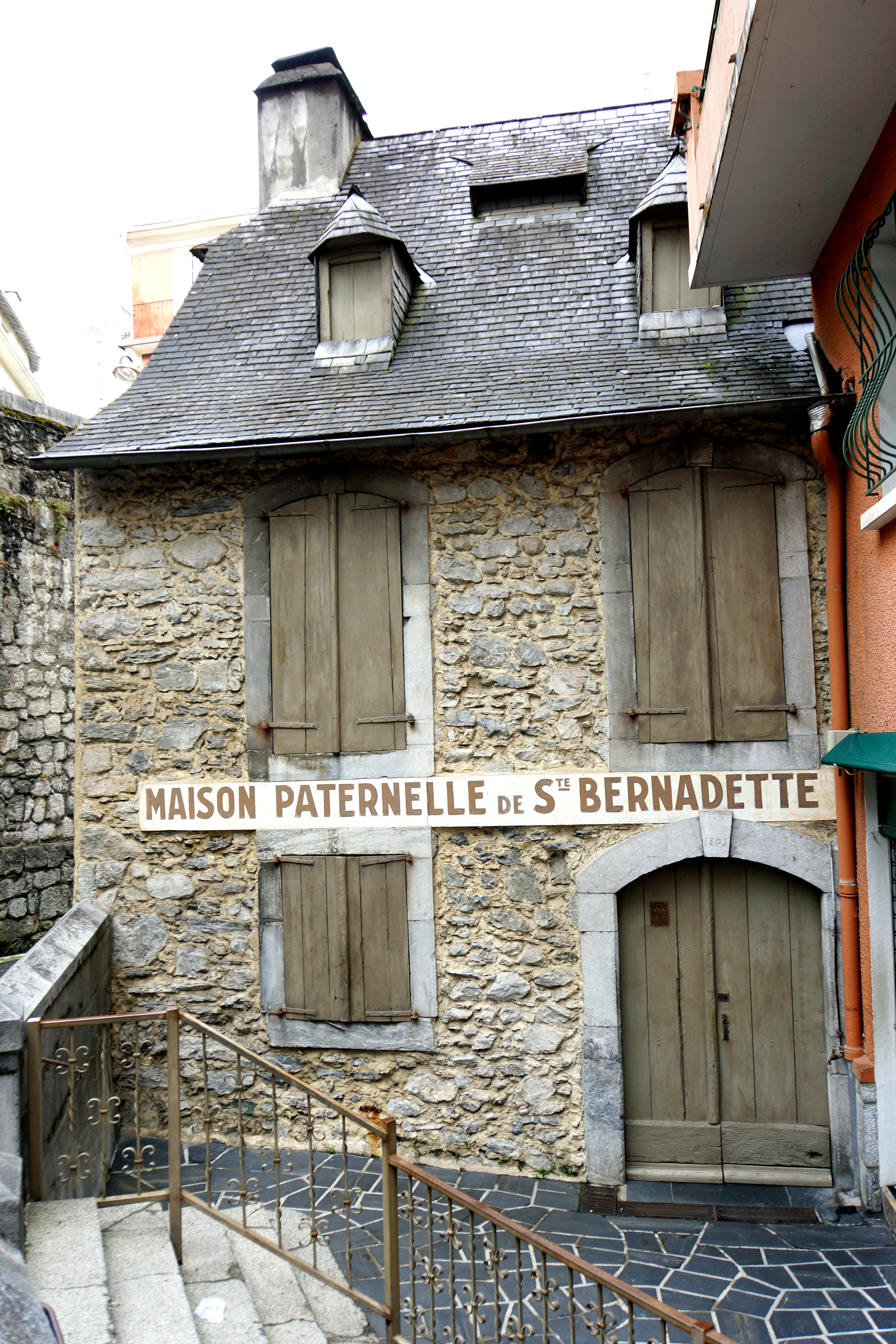 I do not believe this is the actual place but because of the sign I took the picture incase. The Boly Mill was where St. Bernadette was born on 7th January 1844 and lived here happily for 10 years. Her parents, Louise and François, were the tenants of this mill. The failure of François Soubirous obliged the family to leave this comfortable house in June 1854.